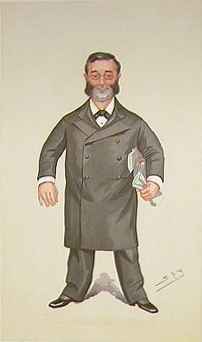 Caricature of Sir Balthazar Walter Foster MD DCL MP. Caption read "The Ilkeston Division".